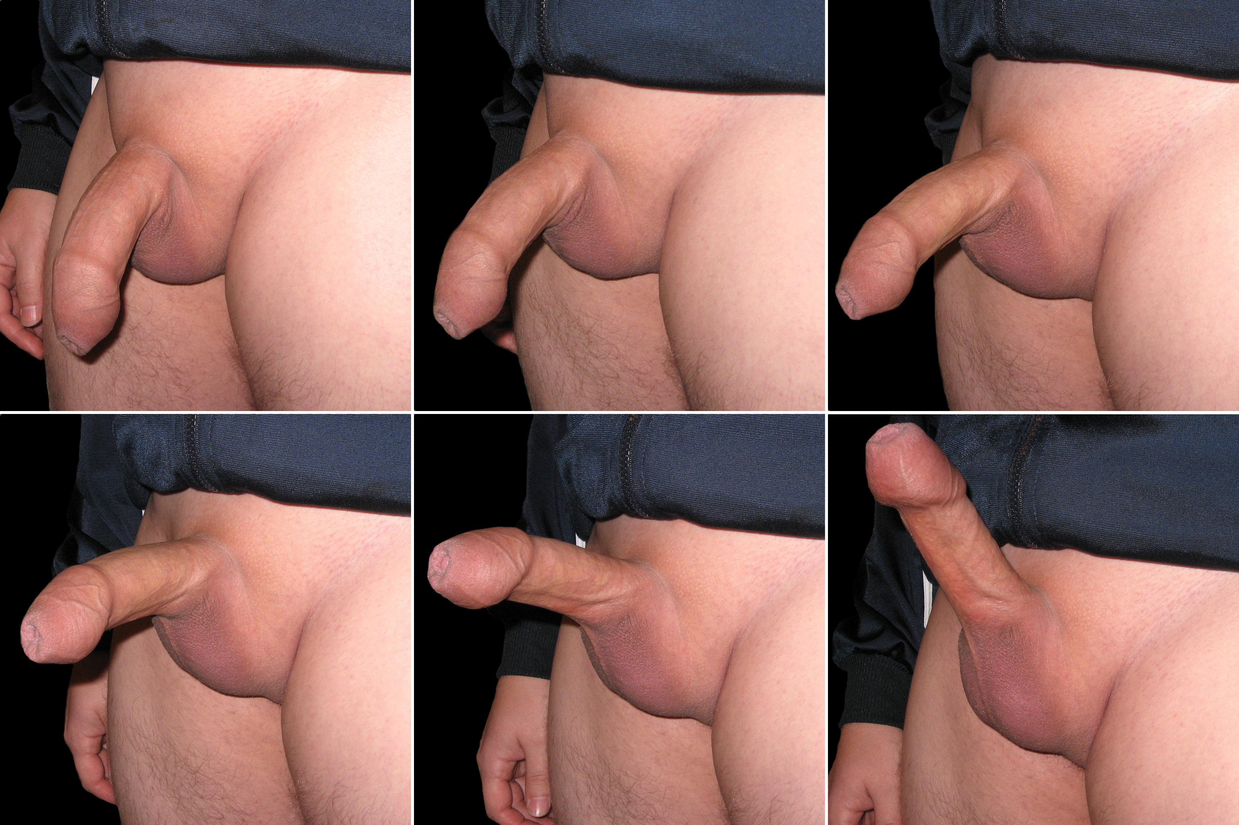 In this series of images is shown a male's (age 31) penis (uncircumcised) in different degrees of erection from the slightest erection to a nearly maximal erection.